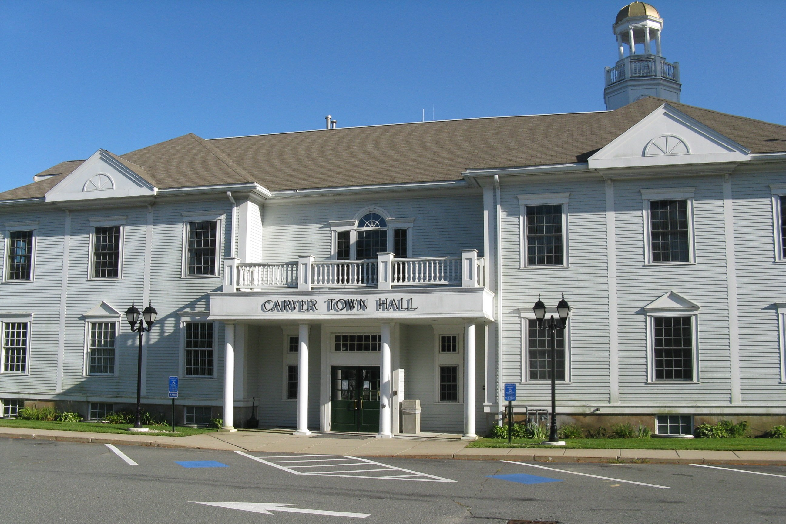 Town Hall, Carver Massachusetts